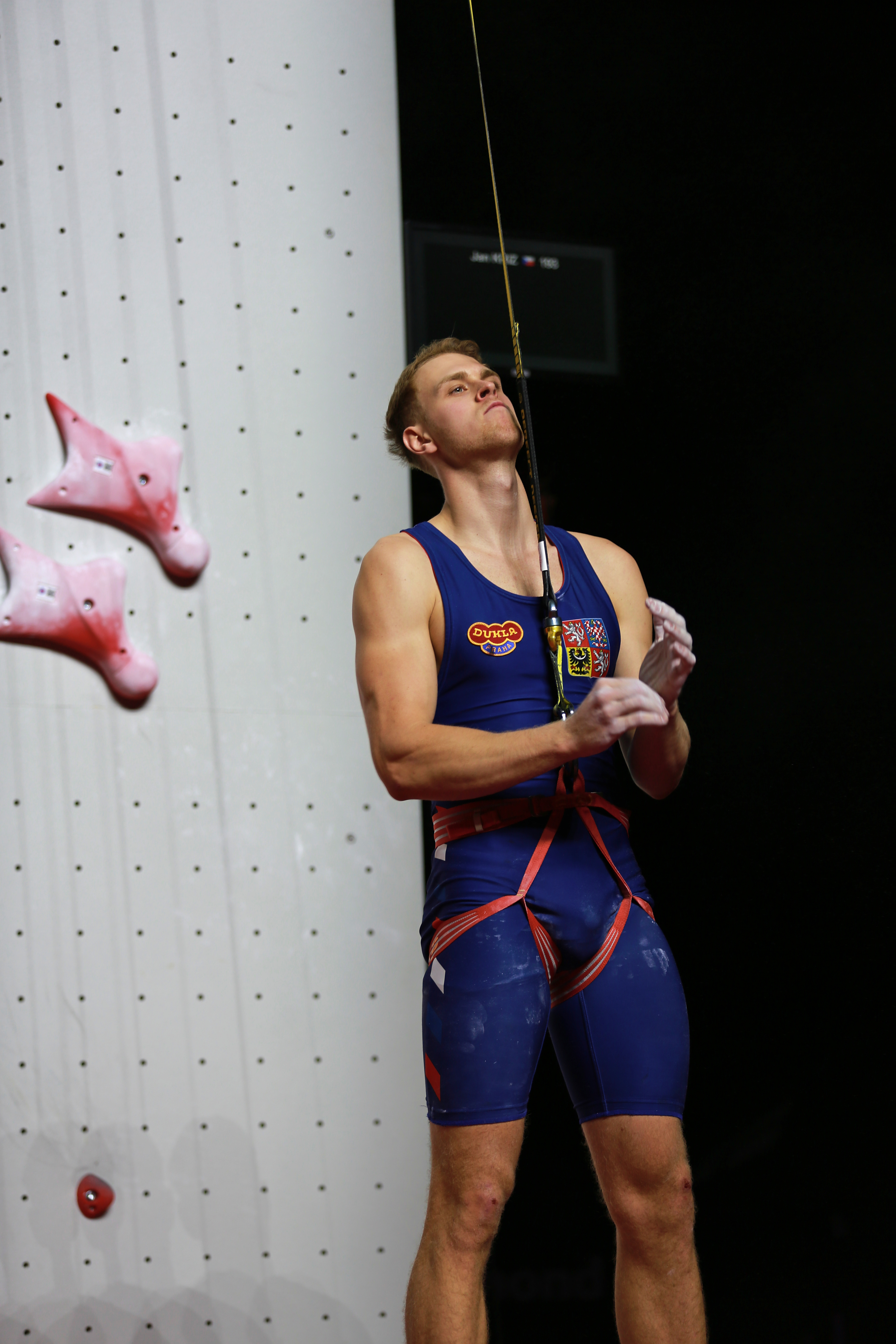 Climbing World Championships 2018 Speed Eighth-finals